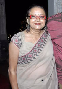 Rita Bhaduri at Team of 'Yeh Rishta Kya Kehlata Hai' celebrates completion of 1000 episodes